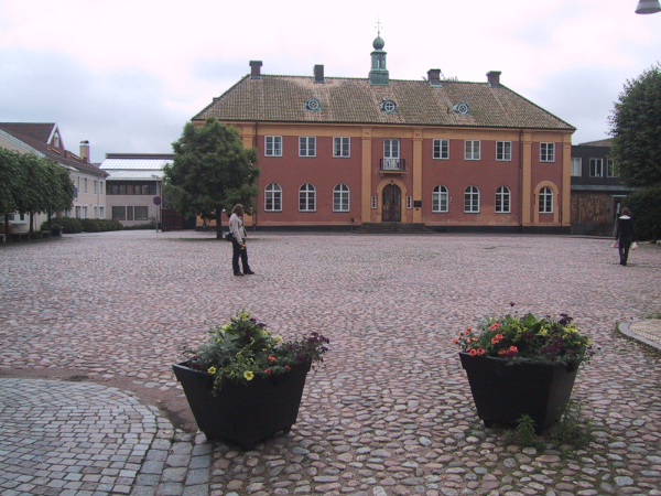 The old courthouse in Ängelholm, Skåne, Sweden This building is now in the process of being renovated and turned into a Privately owned public HighSchool. Photo taken by User:Abelson in June 2004